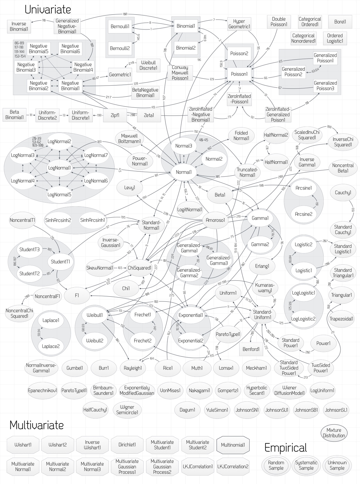 Connectivity graph in ProbOnto v2.5